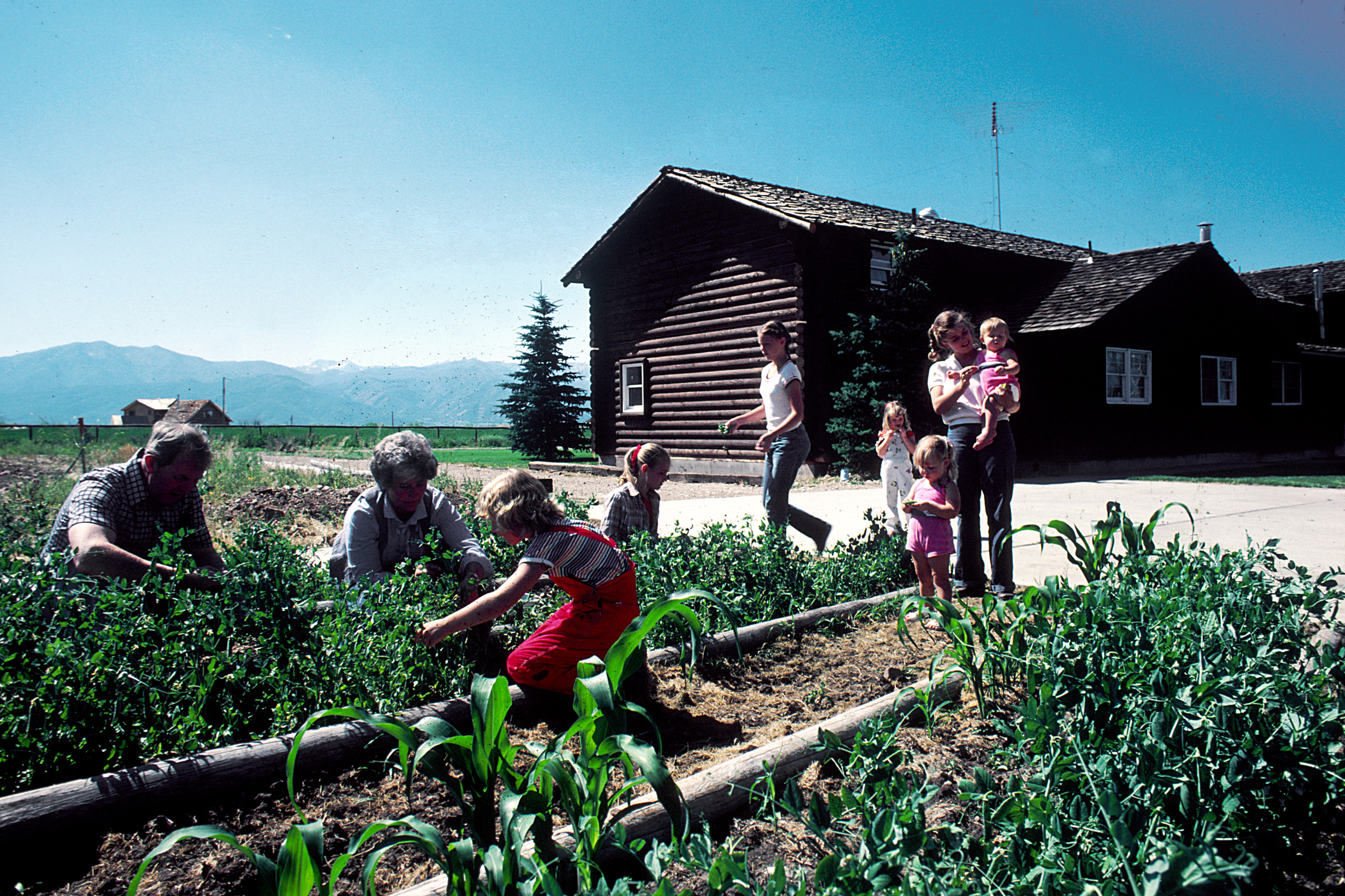 Title Family Gardening Description Various members of a Caucasian family can be seen in a garden setting picking beans. In the background a farm house and the mountains can be seen. It is a summer day. These people are members of a large Mormon family who are presently being studied for their low cancer death rate. Topics/Categories Locations -- Nature/Outdoors People -- Family/Friends People -- Recreation Type Color, Photo Source National Cancer Institute